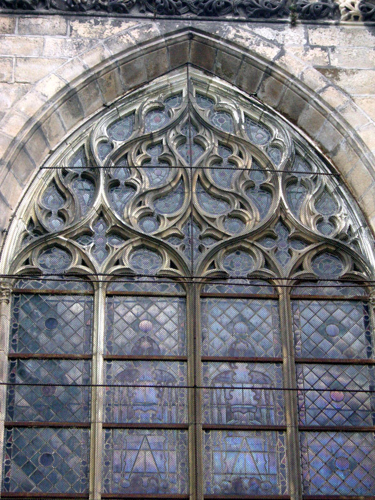 Limoges Cathedral, Gothic window tracery, curvilinear, exterior.